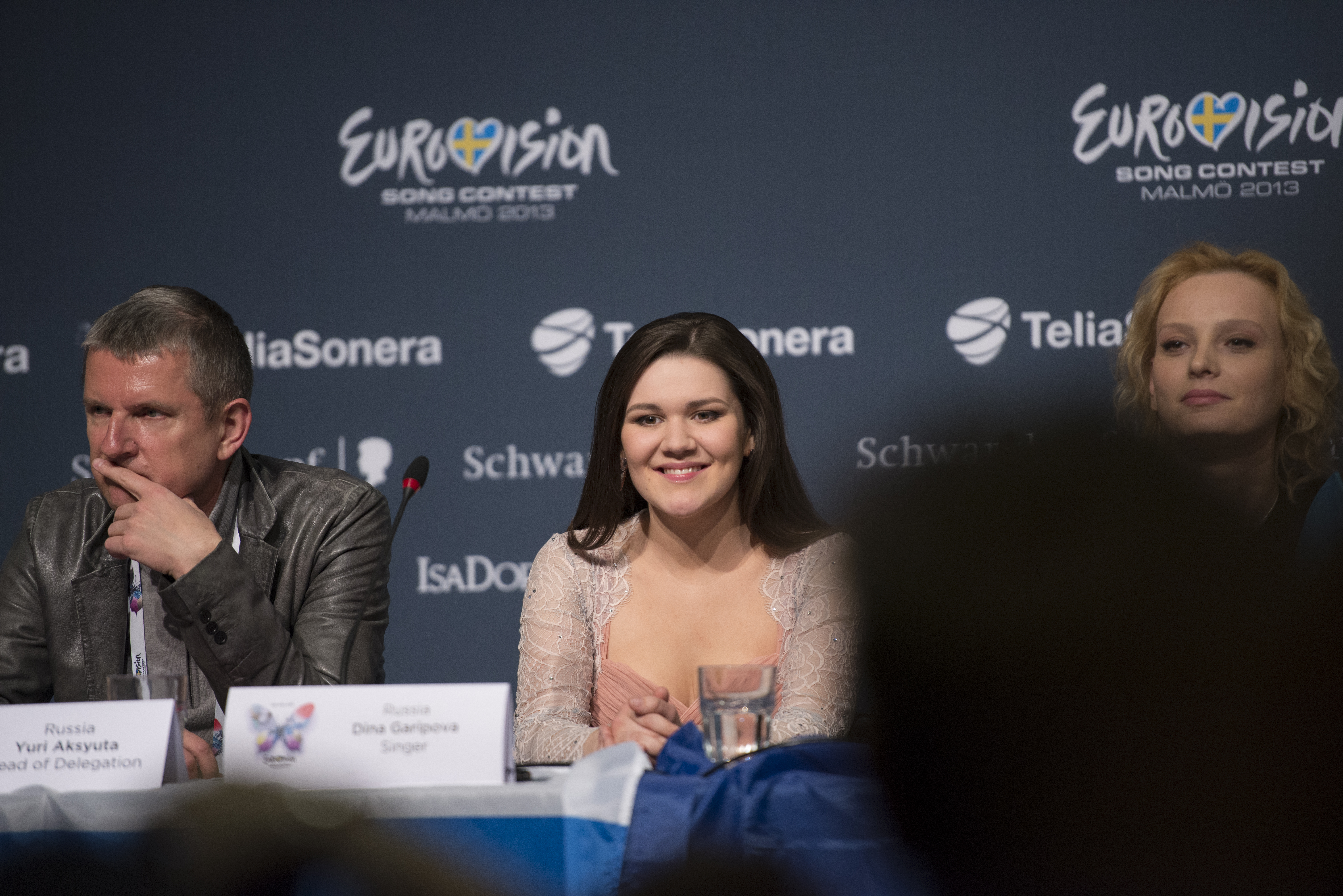 Dina Garipova at a press conference during the Eurovision Song Contest 2013 in Malmö. (Help translate this text)